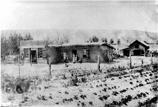 A.F. Miller store and home, Farmington, New Mexico, circa 1885